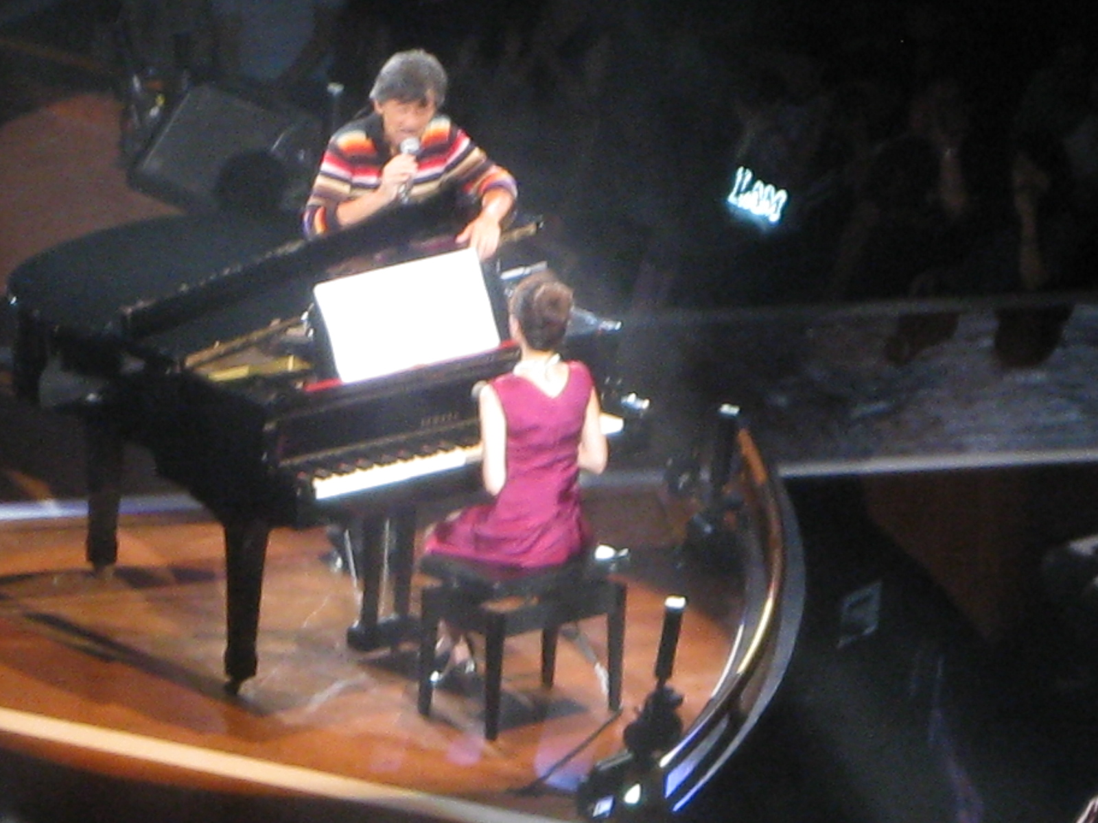 Wong Oi-yan, Connie playing piano in George Lam's Concert 2011